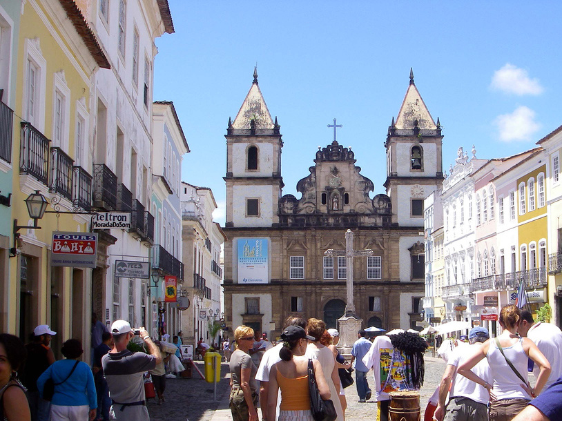 Street in Salvador, Bahia, Brazil